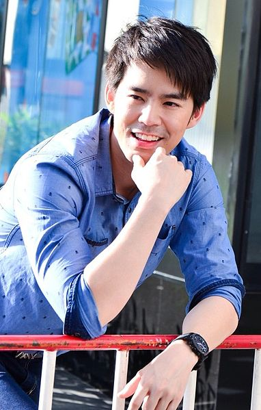 This photo is uploaded for Kawee Tanjararak on Wikipedia.